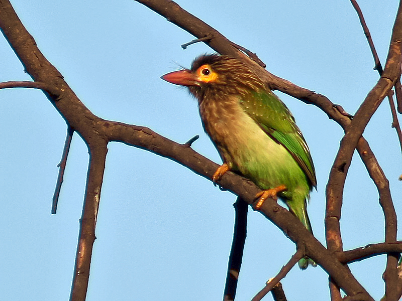 Brown-headed Barbet (Megalaima zeylanica) at Bharatpur, Rajasthan, India.